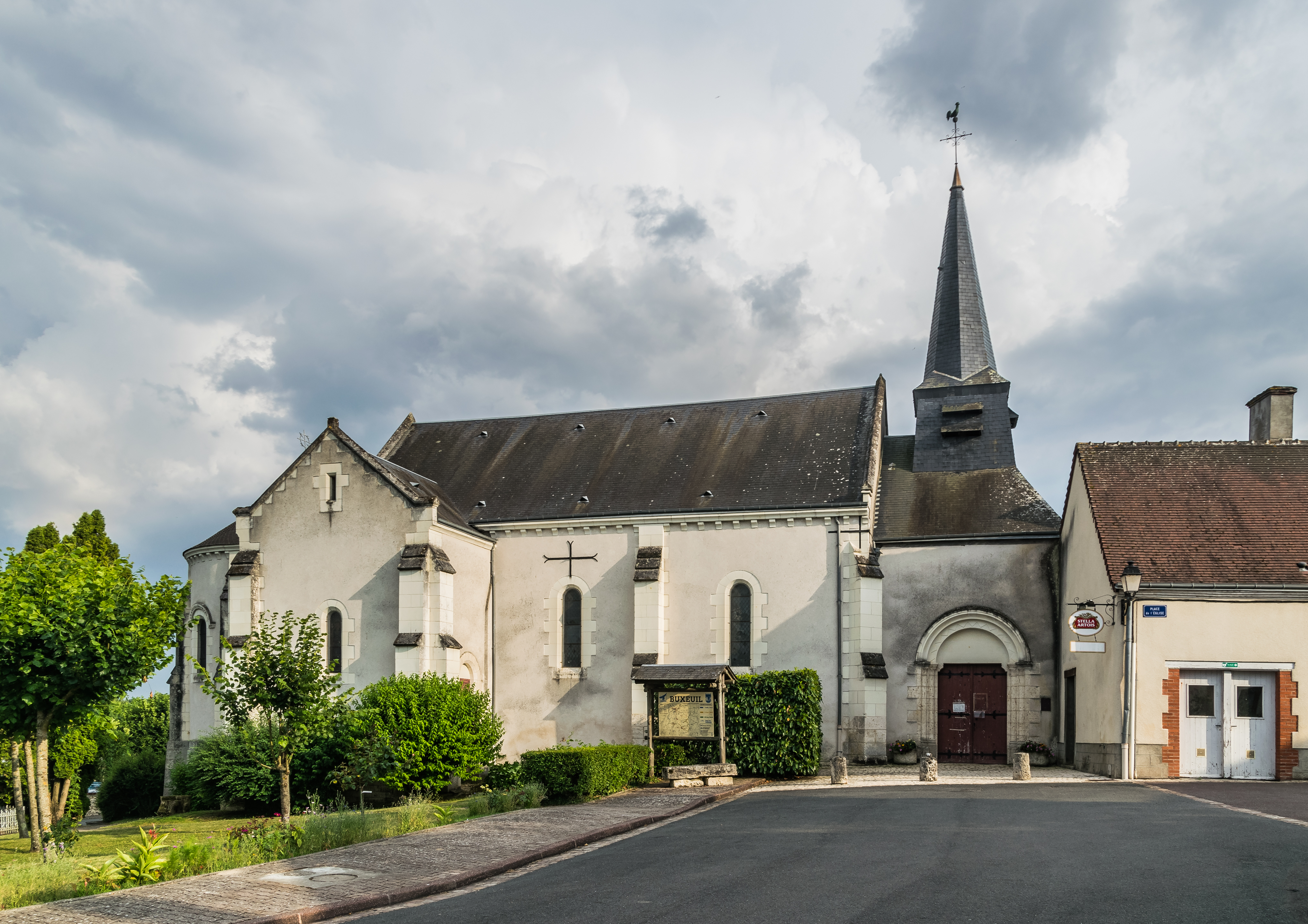 Sulpitius the Pious church in Buxeuil, Indre, France